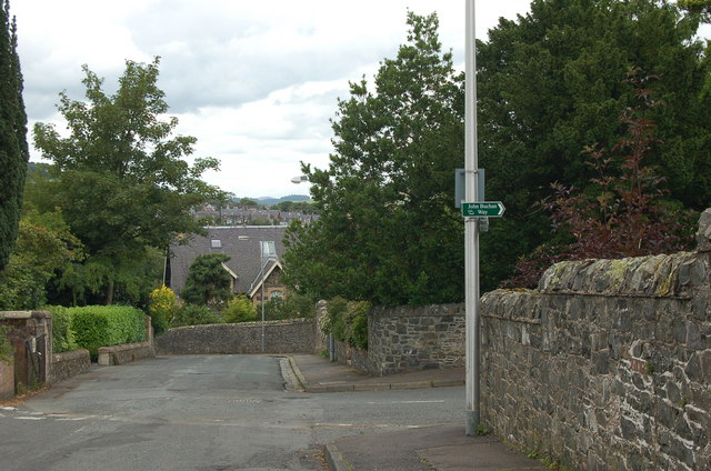 John Buchan Way in a residential area The Way turns right here into Chambers Terrace, at the northern edge of the square, before descending to the River Tweed to the finishing point at Bank House, to complete the 13-mile (21km) route from Broughton.